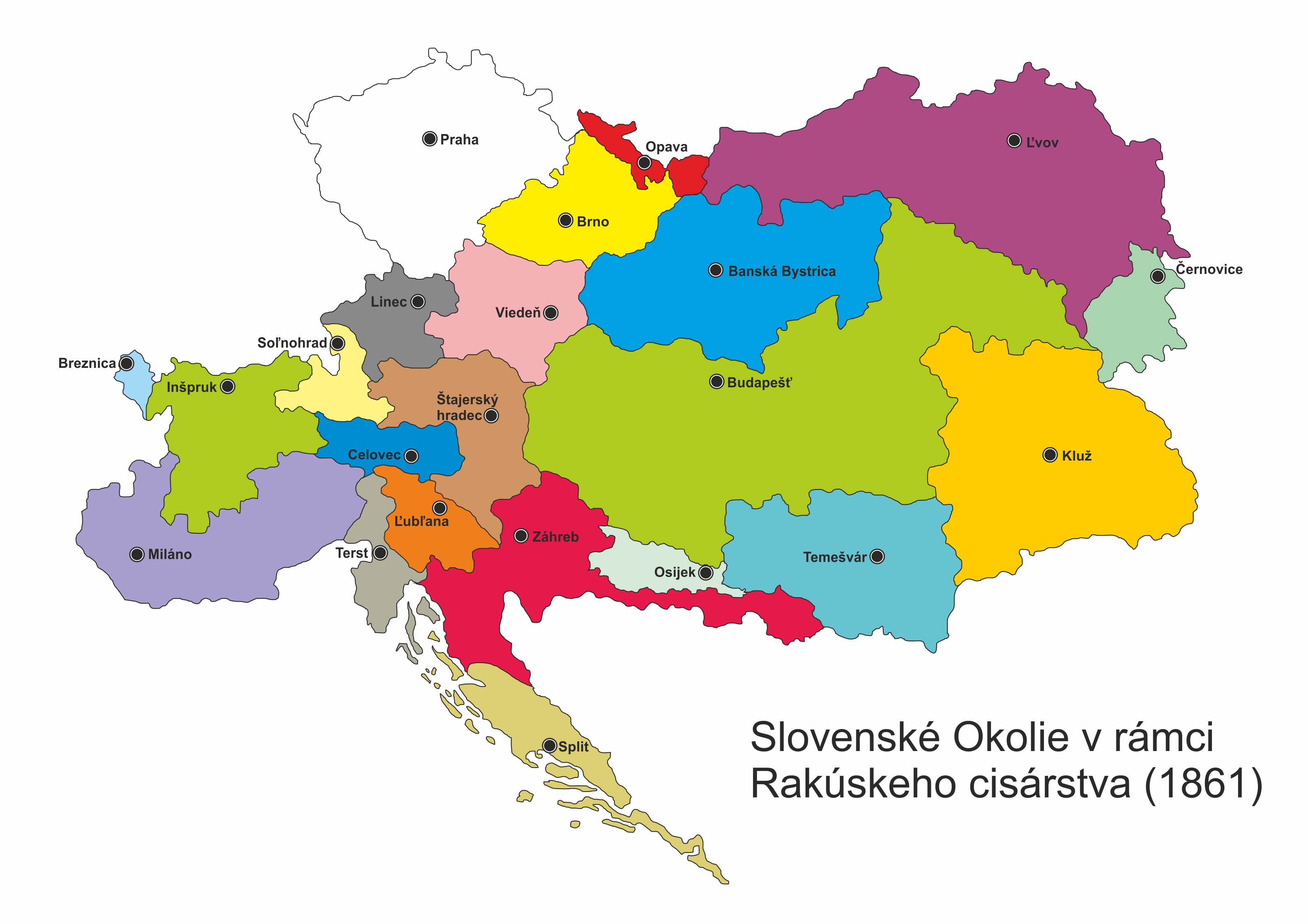 The map shows borders and size of the Slovak district/territory, as an autonomous territorial unit, according to the Slovak demands of the Vienna Memorandum, on the map of Austrian empire, as it would looked like in 1861. The proposed capital city was Banská Bystrica.